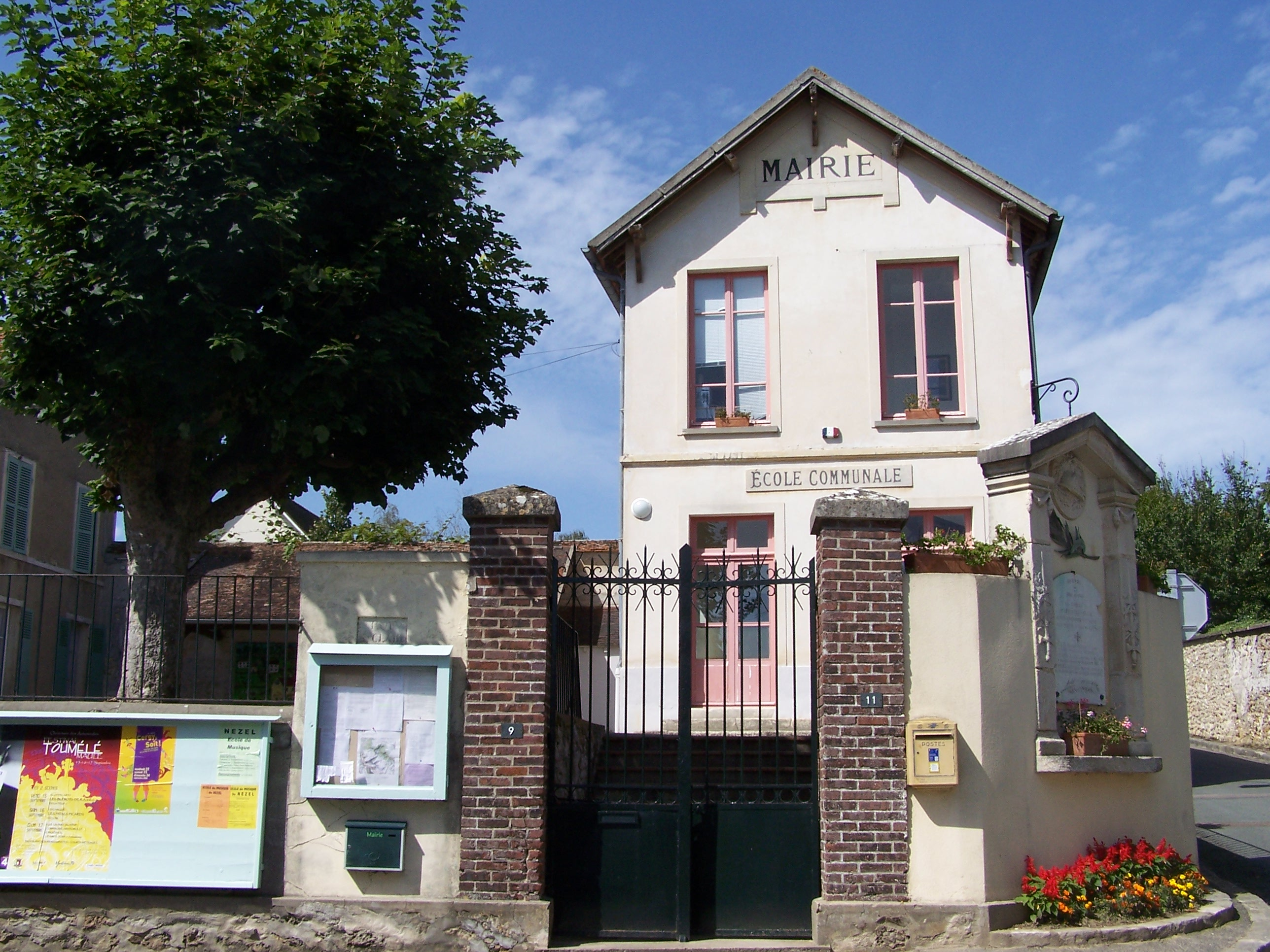 Hôtel de ville d'Herbeville (Yvelines, France). Photo personnelle. Town hall of Herbeville (Yvelines, France). Personal photo. Auteur/Author : Henry Salomé